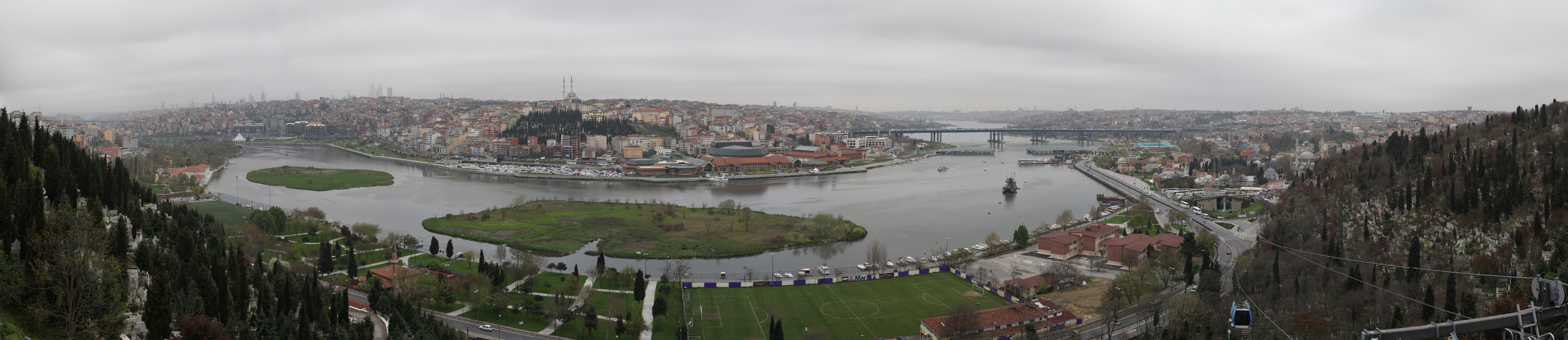 Panoramic view of the Golden Horn, taken from Eyüp.